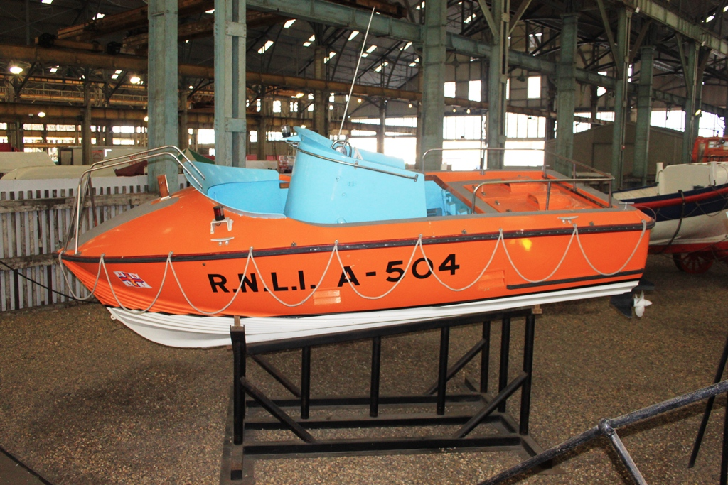 Preserved McLachlan class inshore lifeboat A-504 on display at Chatham. It saw service at Weston-super-Mare from 1970 until 1983.